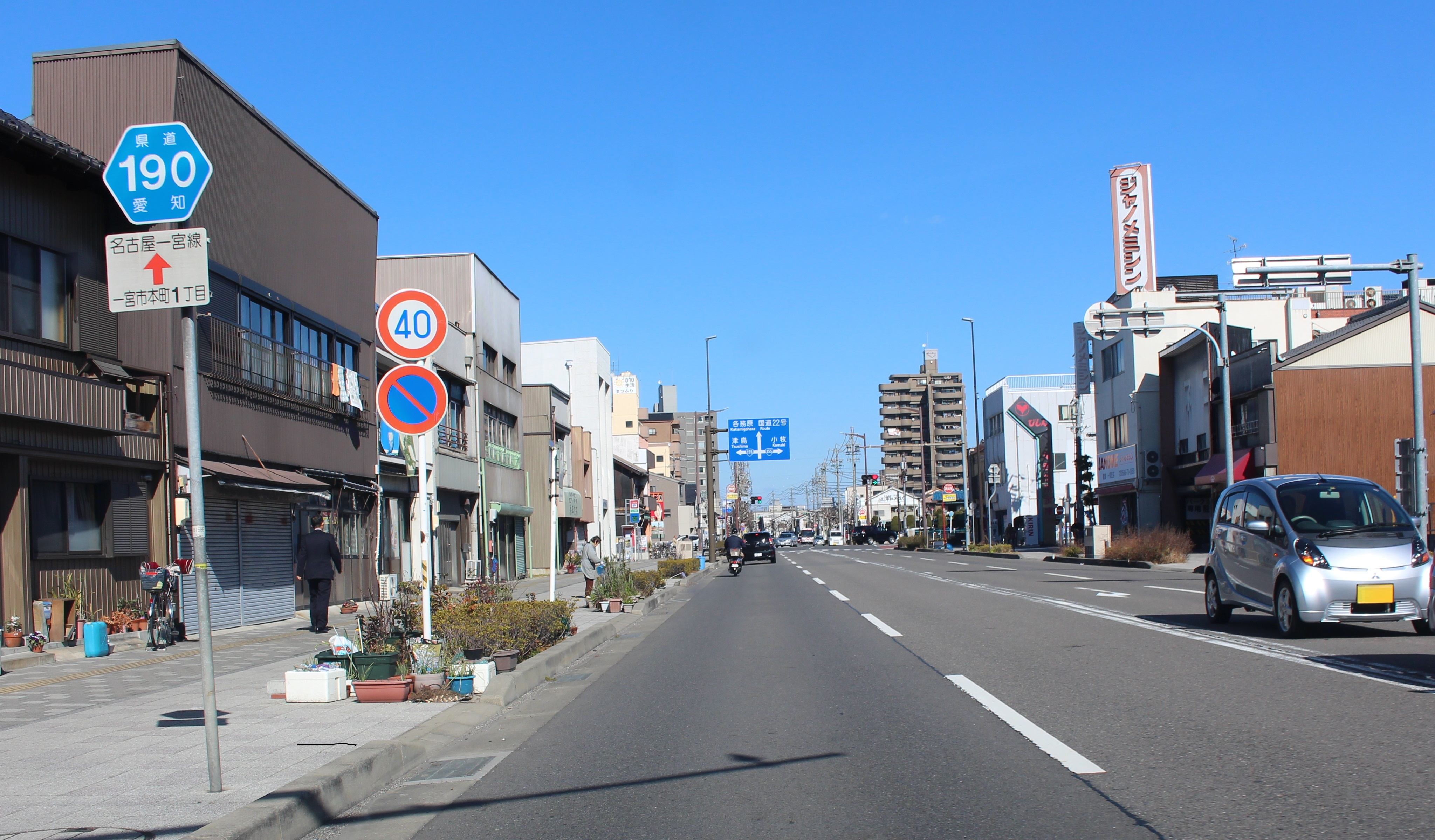 Aichi Prefectural Road Route 190 in Ichinomiya, Aichi prefecture, Japan.